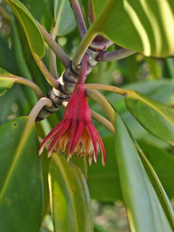 Bruguiera gymnorrhiza, leaves and flower. From Sangatta, East Kalimantan, Indonesia